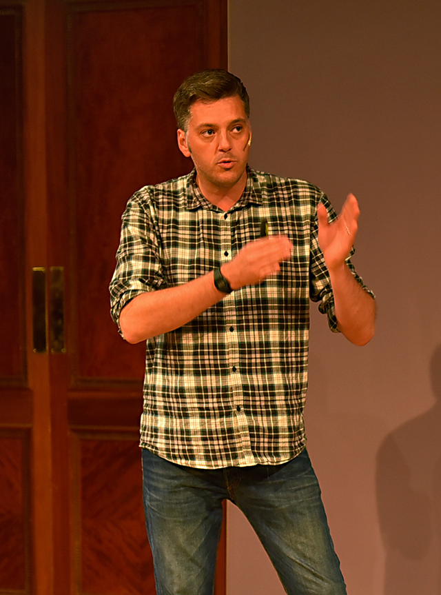 Next Radio 2015